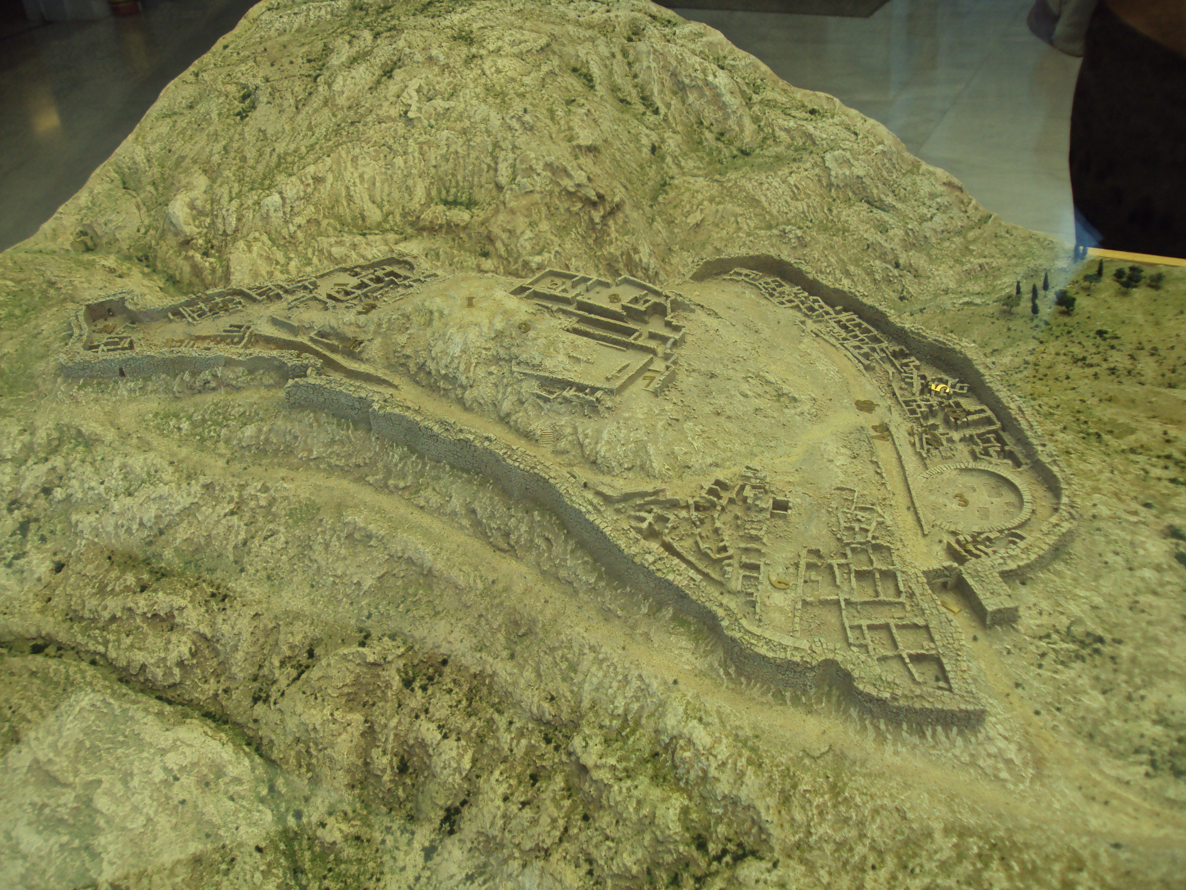 Mycenae